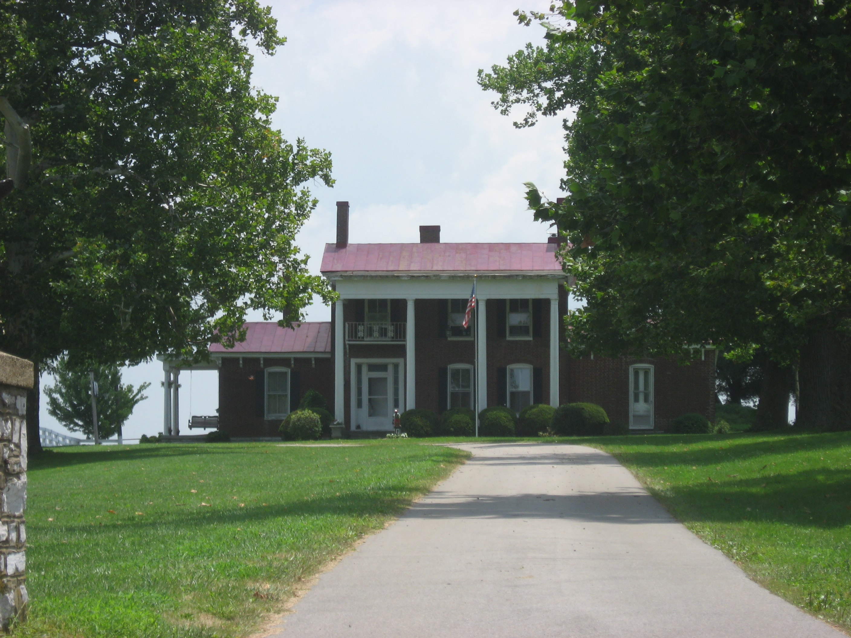 Roadside view of the Young House, located at 1970 Lexington Road (Kentucky Route 29) west of Nicholasville in Jessamine County, Kentucky, United States. Built in the middle of the nineteenth century, this Italianate house is listed on the National Register of Historic Places.